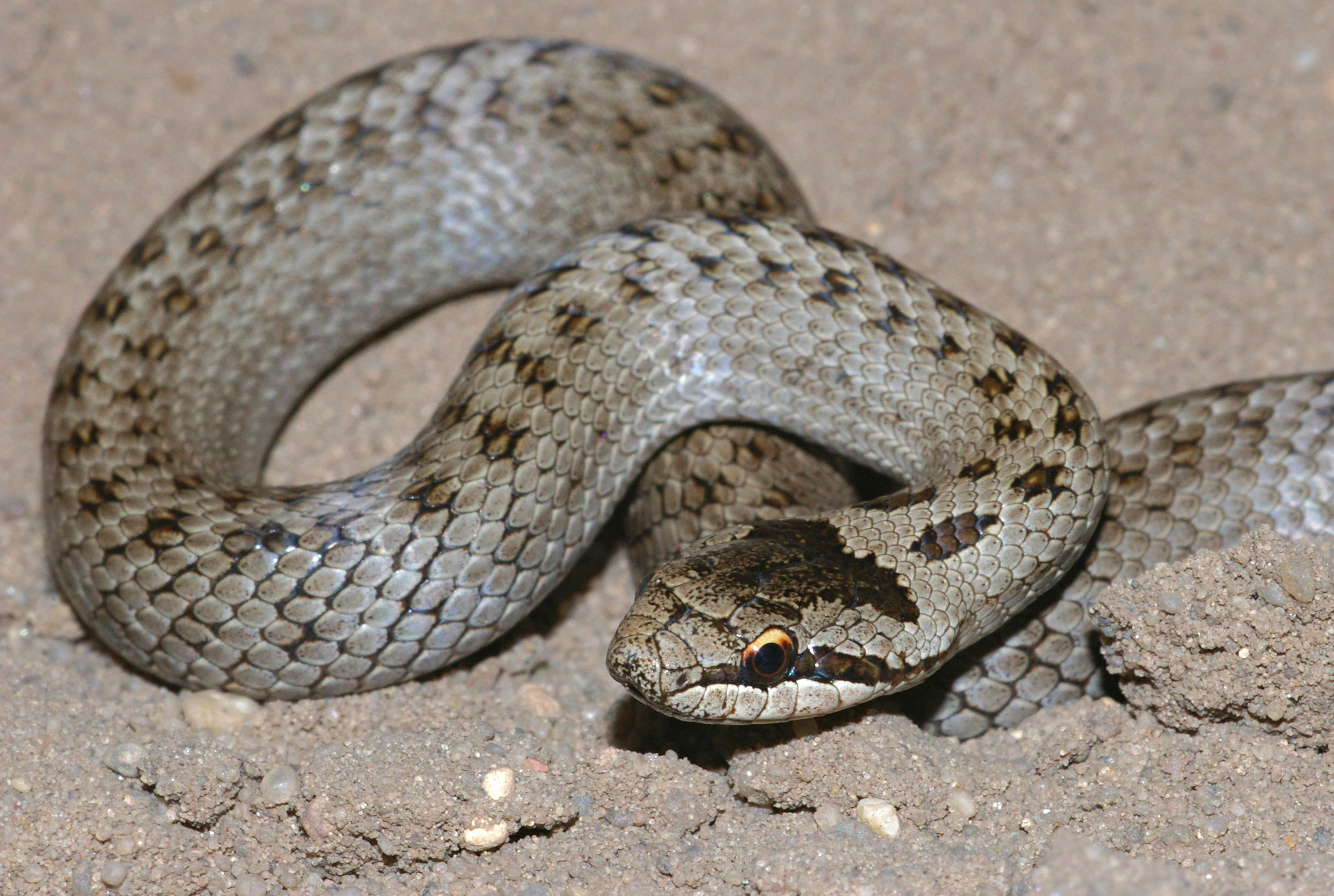 Detail of a Smooth Snake, Coronella austriaca. This is a young specimen (probably second life year) with an estimated length of 25 cm and a body diameter of about 10-12 mm.